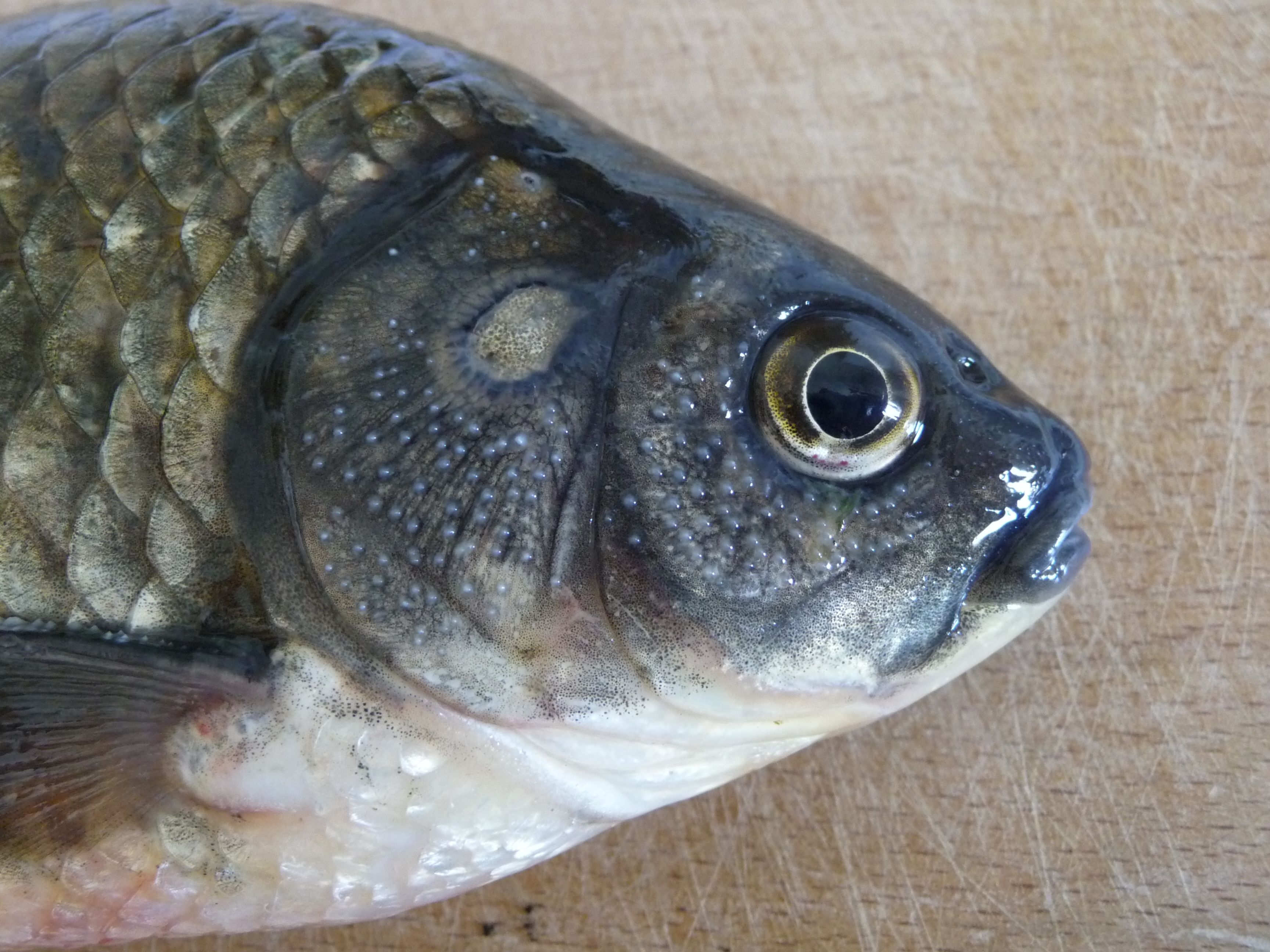 Head of a male Prussian carp (Carassius gibelio (Bloch, 1782)) showing lots of epithelial tubercles which appear at spawning time. The operculum (gill cover) has a round scar from an old injury. This fish was caught in the Southern Bug river, Ukraine.